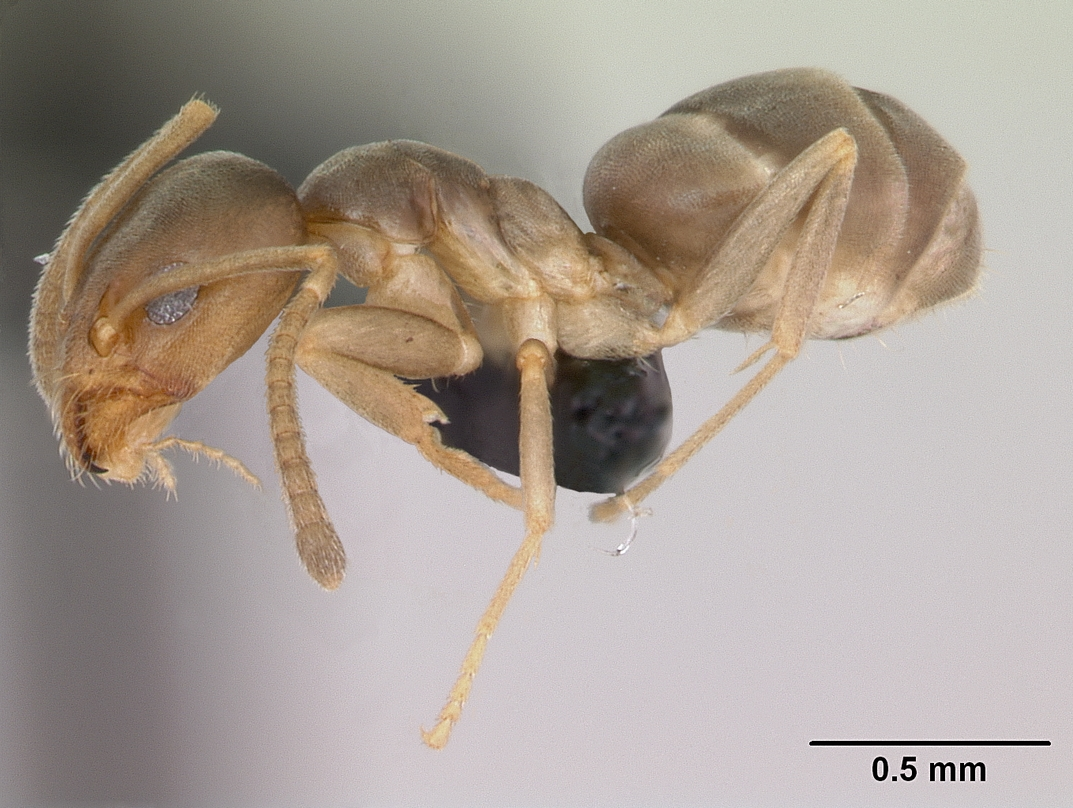 Profile view of ant Doleromyrma darwiniana specimen casent0009949.